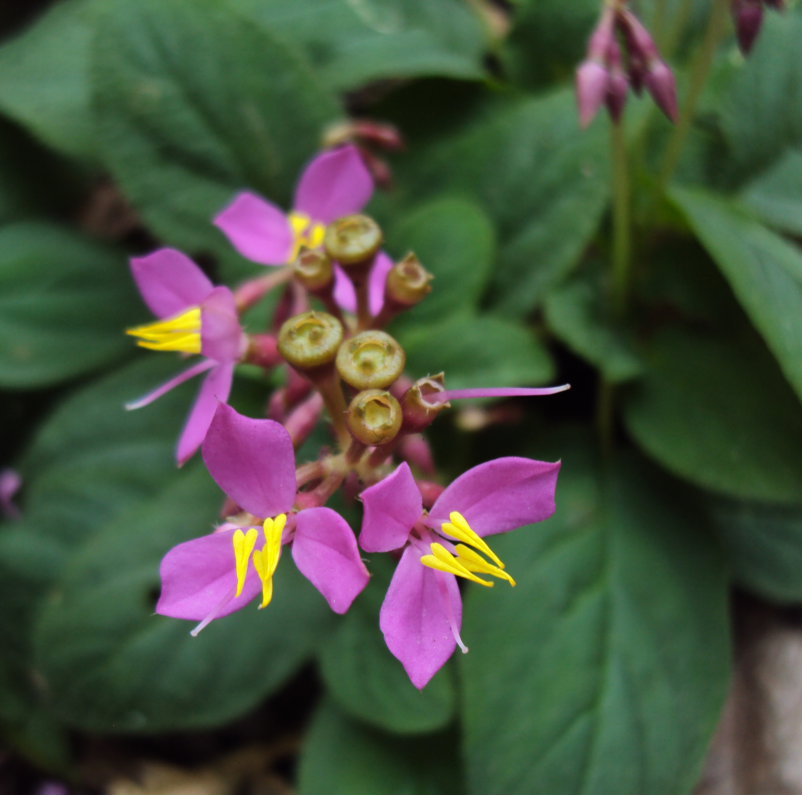 Sonerila rheedei